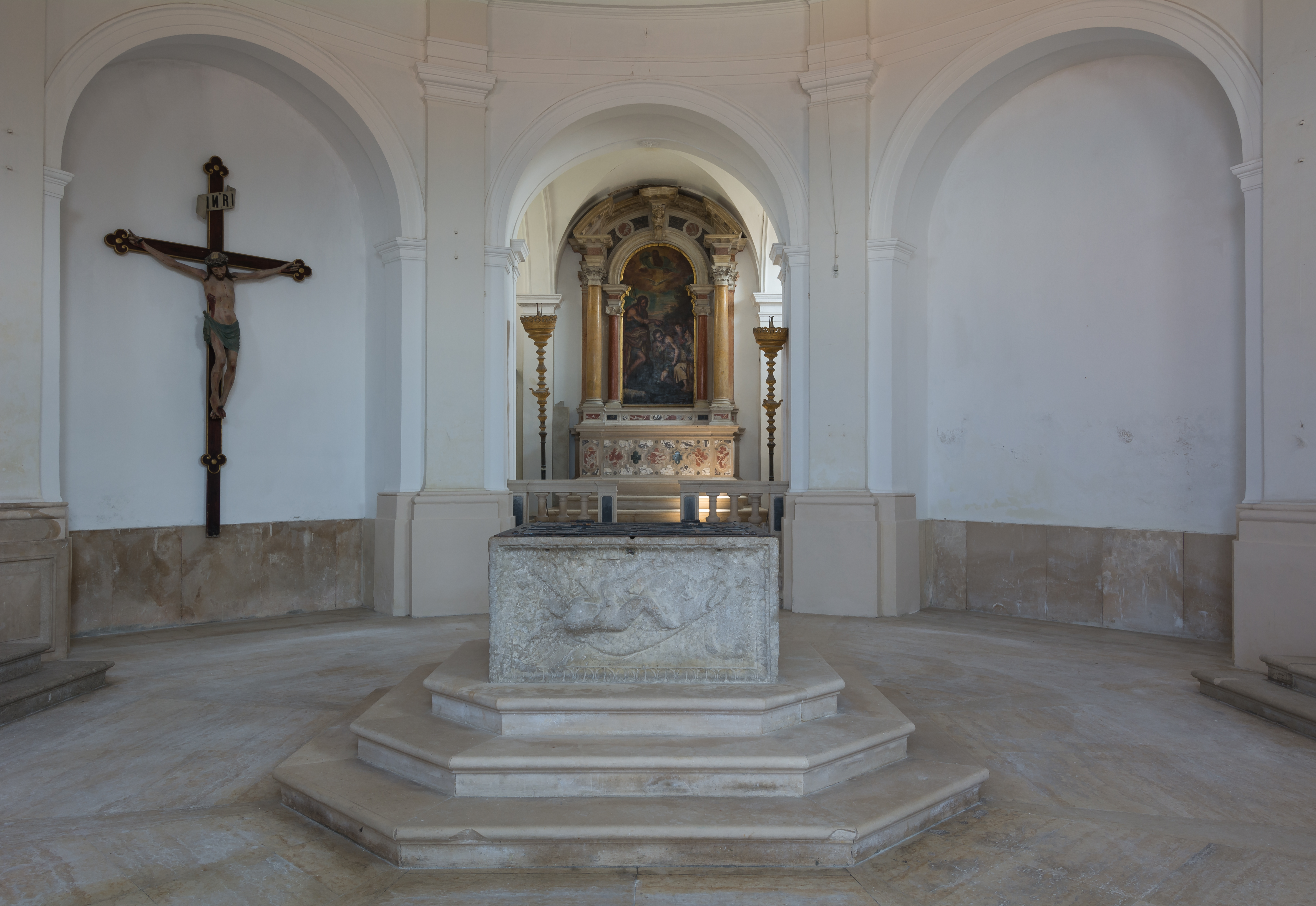 The octogonal baptistery beside the church of St. George in Piran was erected in 1650. A roman sarcophagus from the first half of the second century serves as baptismal font. The figure of Jesus on the crucifix was made around 1370.